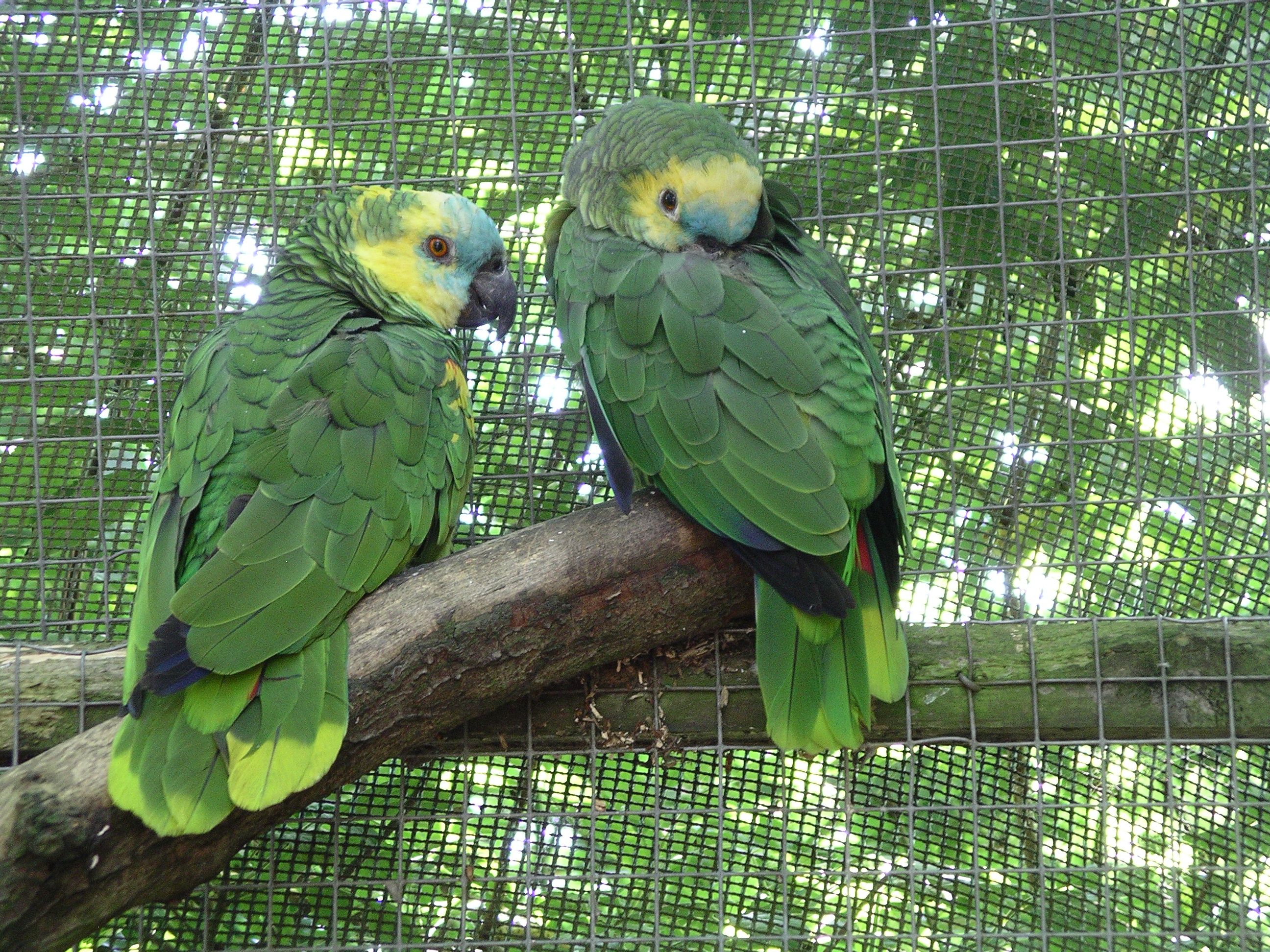 photo of a Blue-fronted Amazon Parrot at Tropical Birdland, Leicestershire, England.